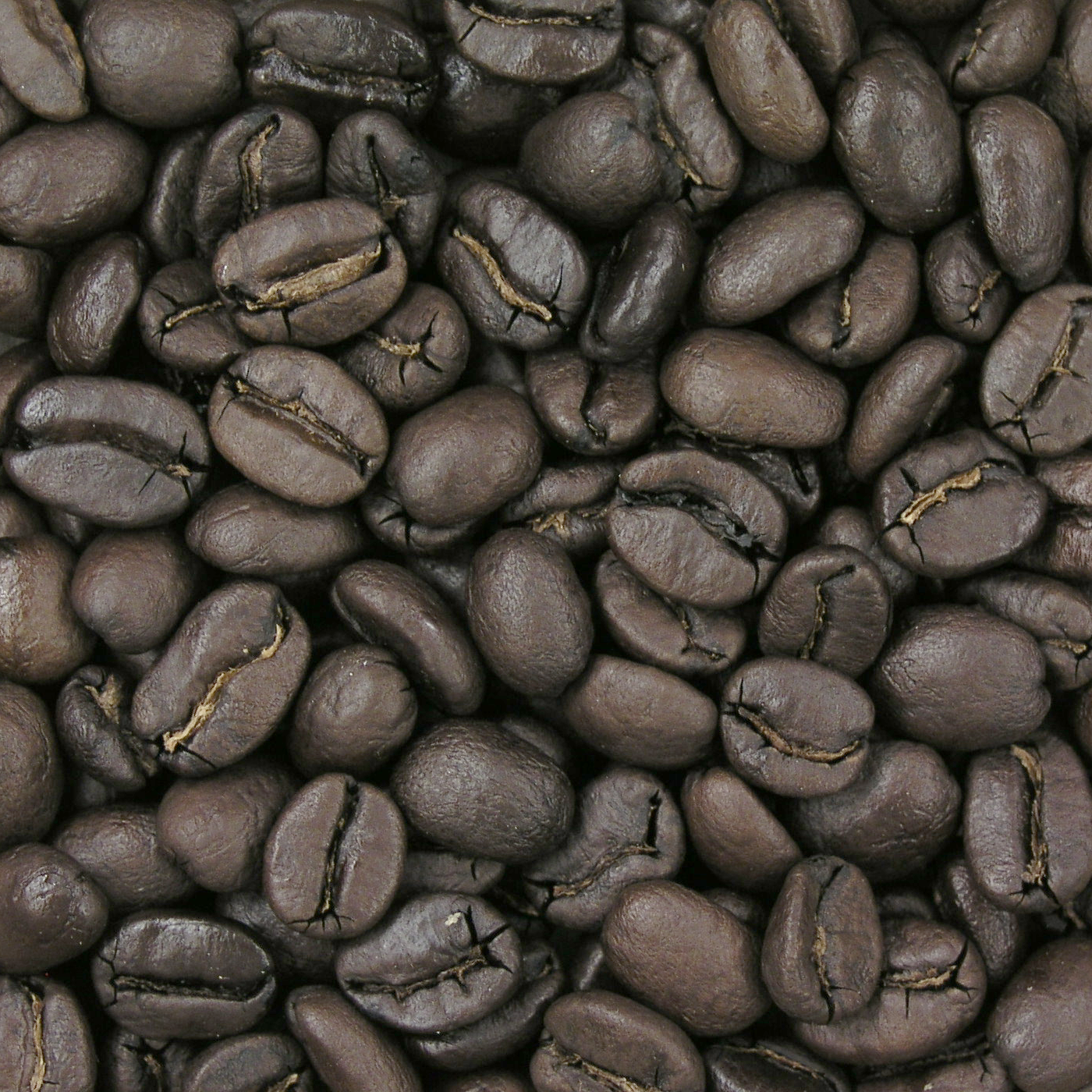 Typical Brazilian coffee at 440° F, or Full City roast.